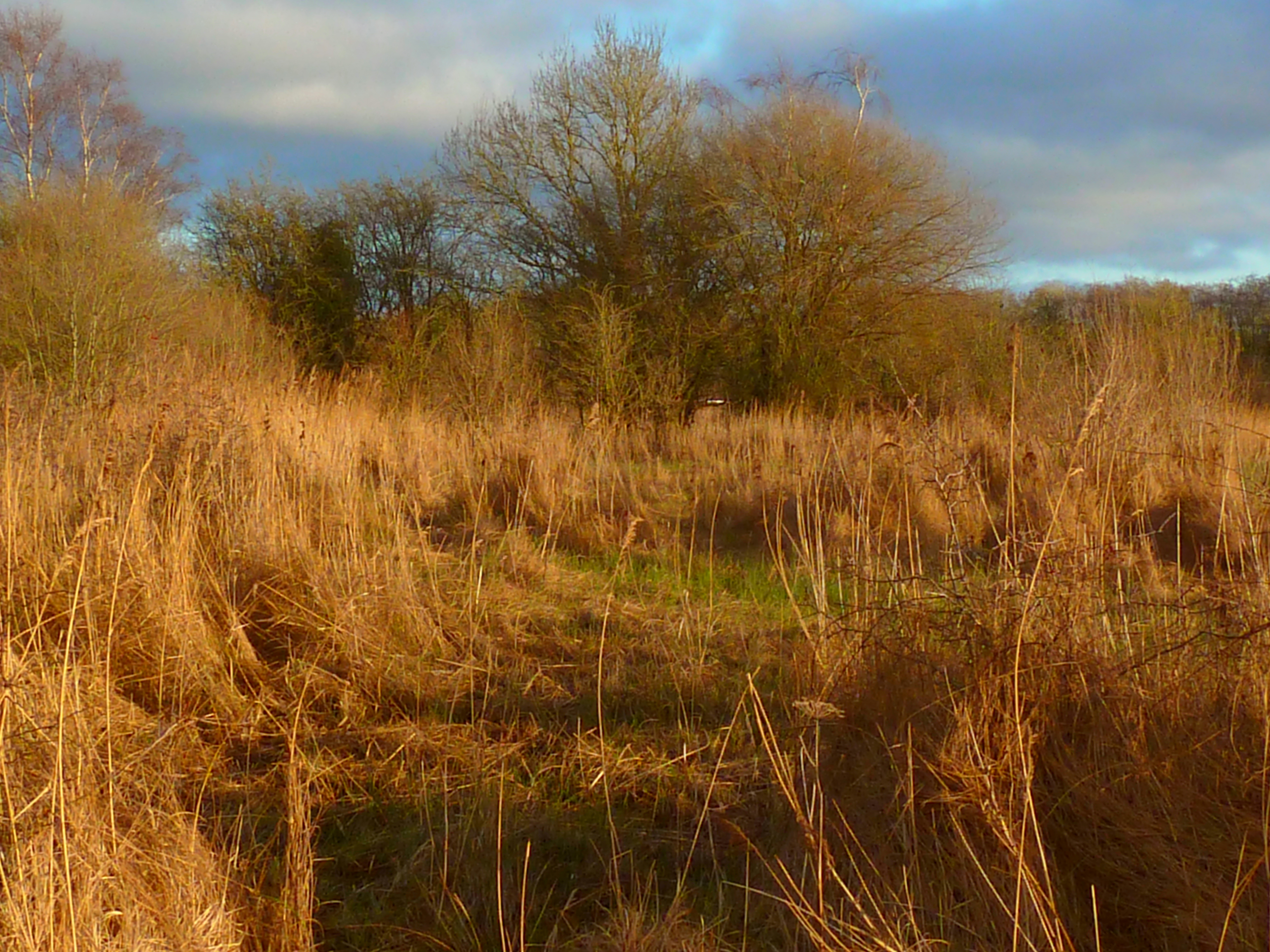 Farnham Mires SSSI, Low Moor Lane, near Farnham, North Yorkshire, England. This is a site of Special Scientific Interest, designated in 1954 and 1984 for its diverse flora, some of which is particular to the calcareous grassland and mire at this place. There is no public access, no parking, and no facilities at this site. Showing view across mire, looking east.